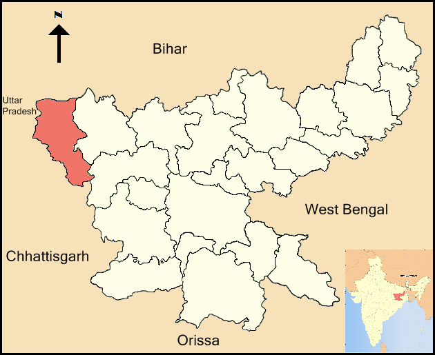 A locator map of Garhwa district, Jharkhand state, India